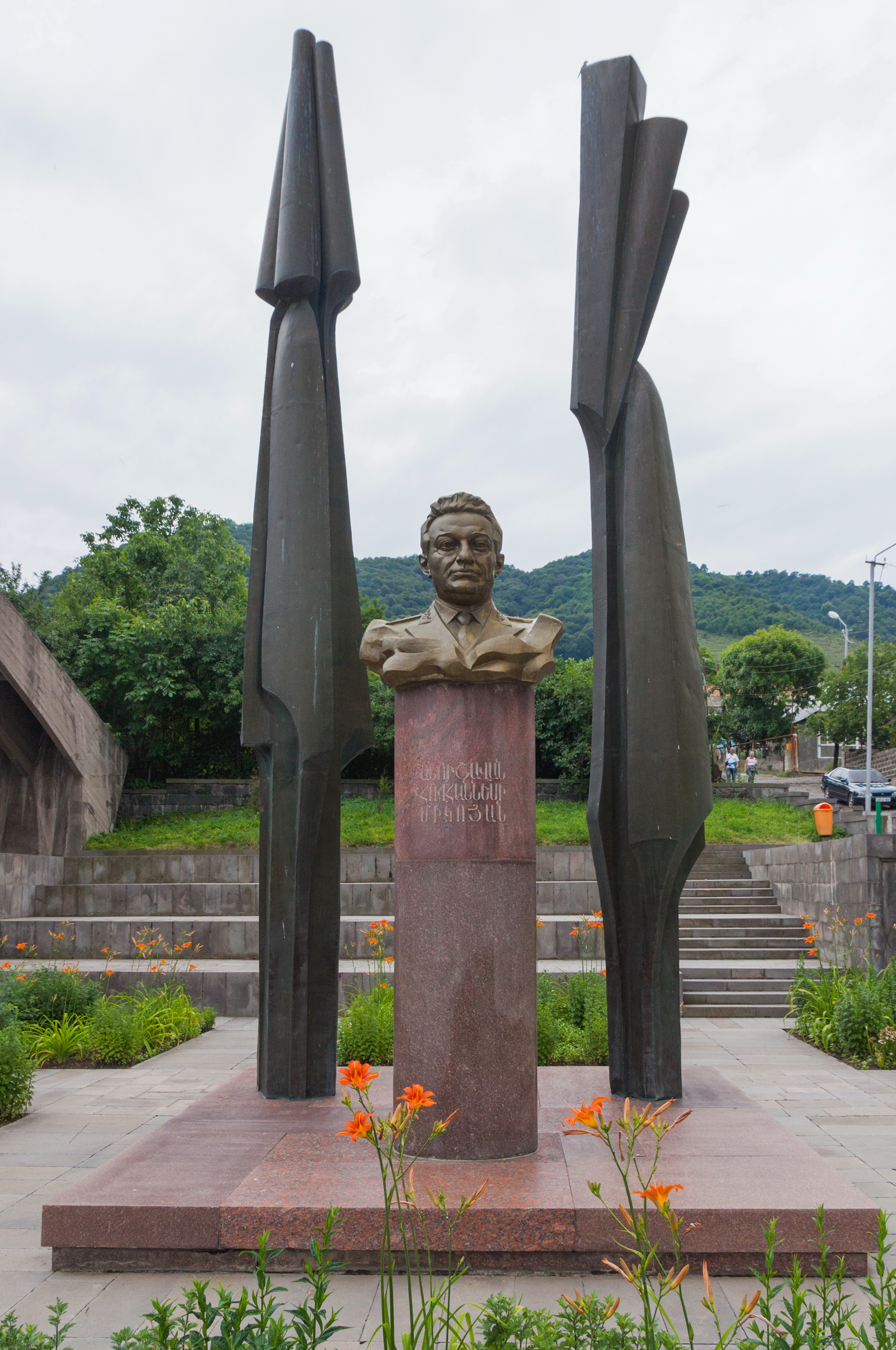 Artem Mikoyan monument. Mikoyan Brothers Museum. Sanahin, Lori Province, Armenia.